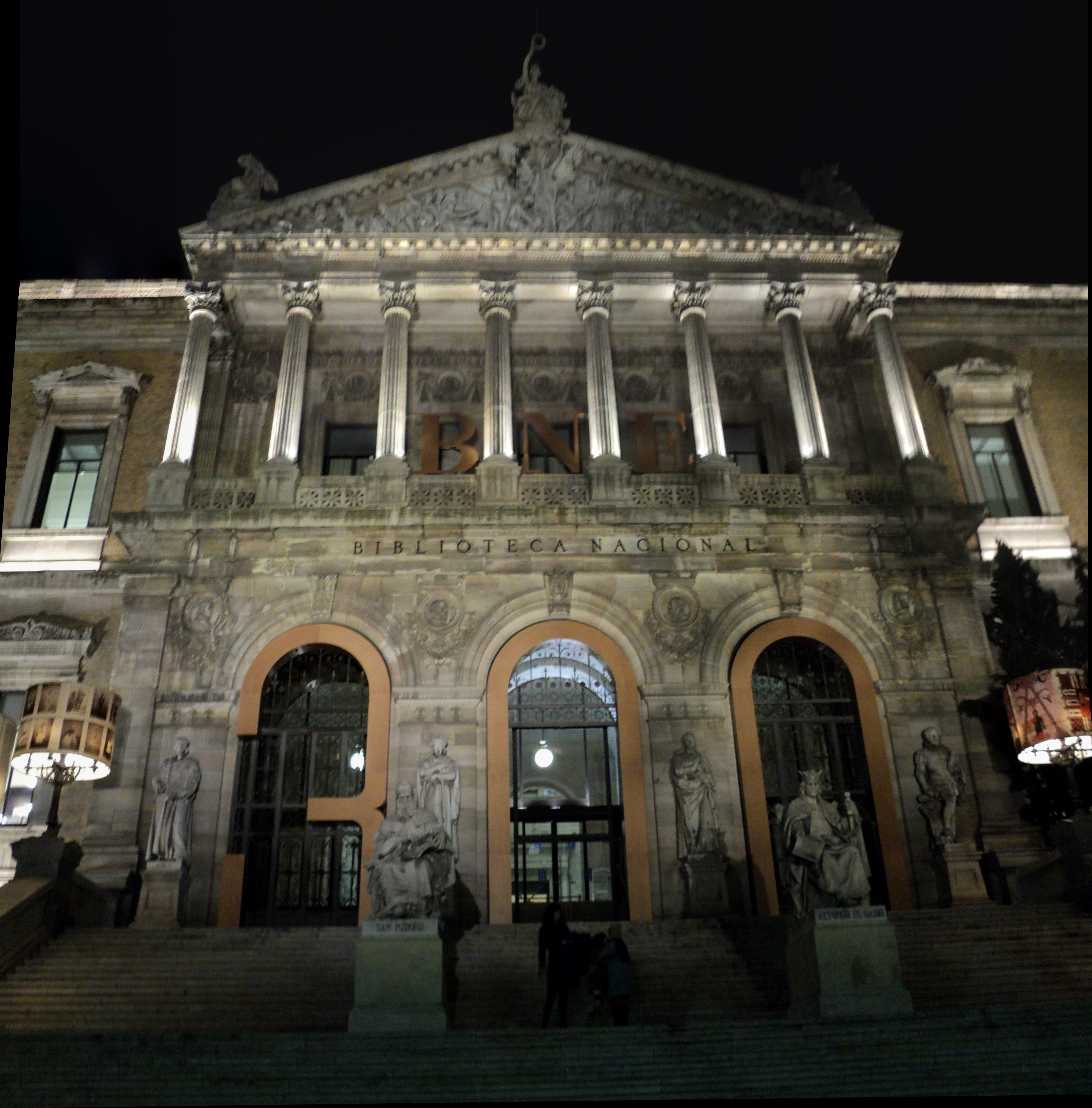 Spain National Library, in Madrid